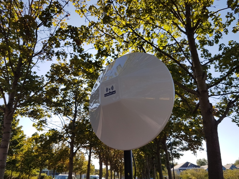 CableFree V-band high gain radio with integrated parabolic antenna and radio